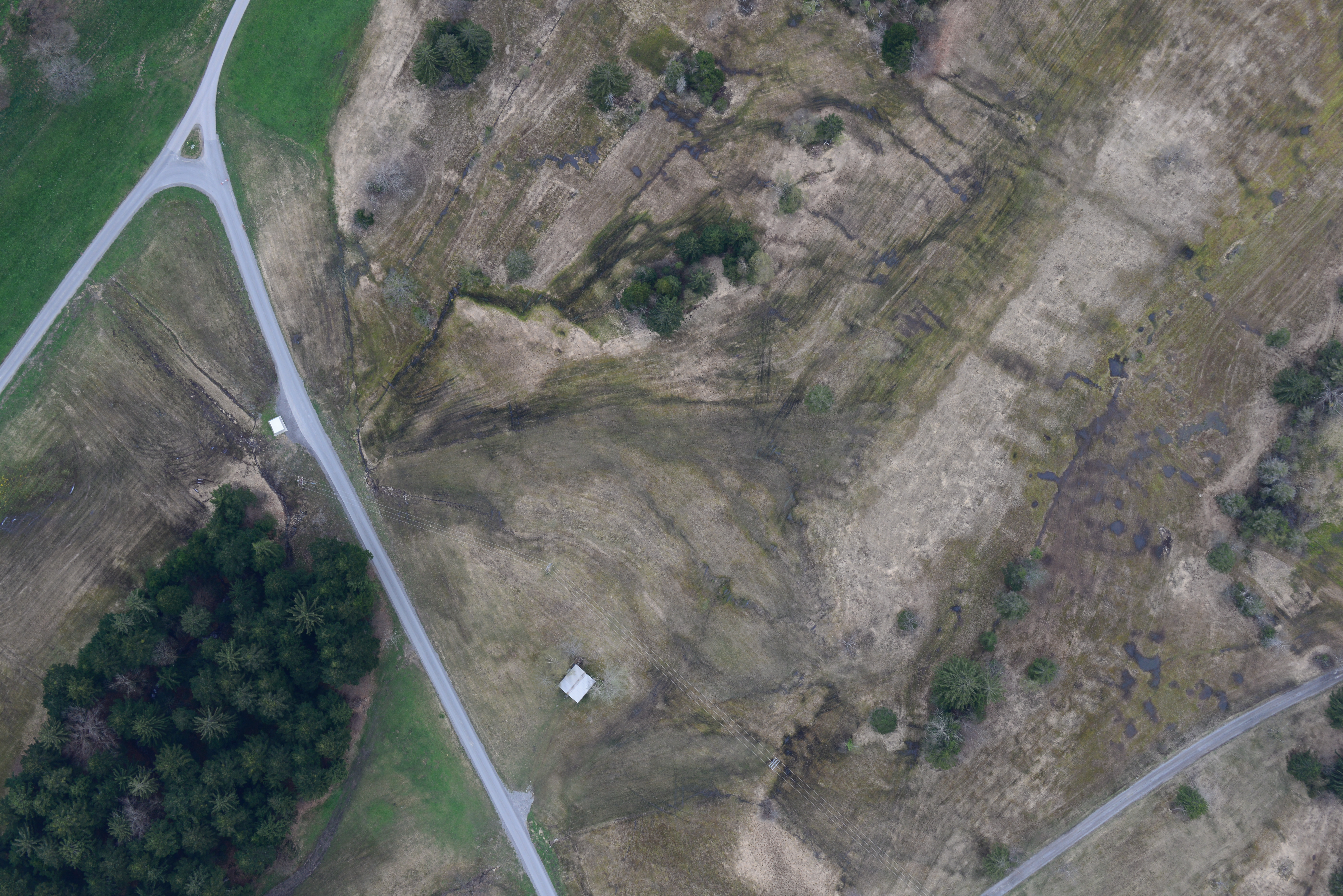 Austria - Vorarlberg - district Bregenz - Alberschwende/Bildstein: nature reserve "Farnachmoos"